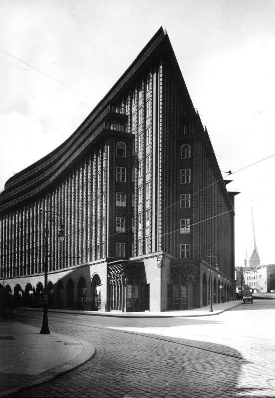 Vorkriegs-Aufnahme Hamburg Chile-Haus (Arch. Höger) Information added by Wikimedia users.This is a photograph of an architectural monument.